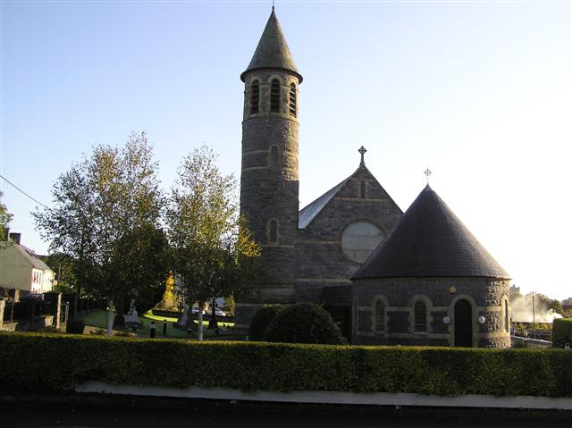 Raphoe RC Church It is located at Meetinghouse Street